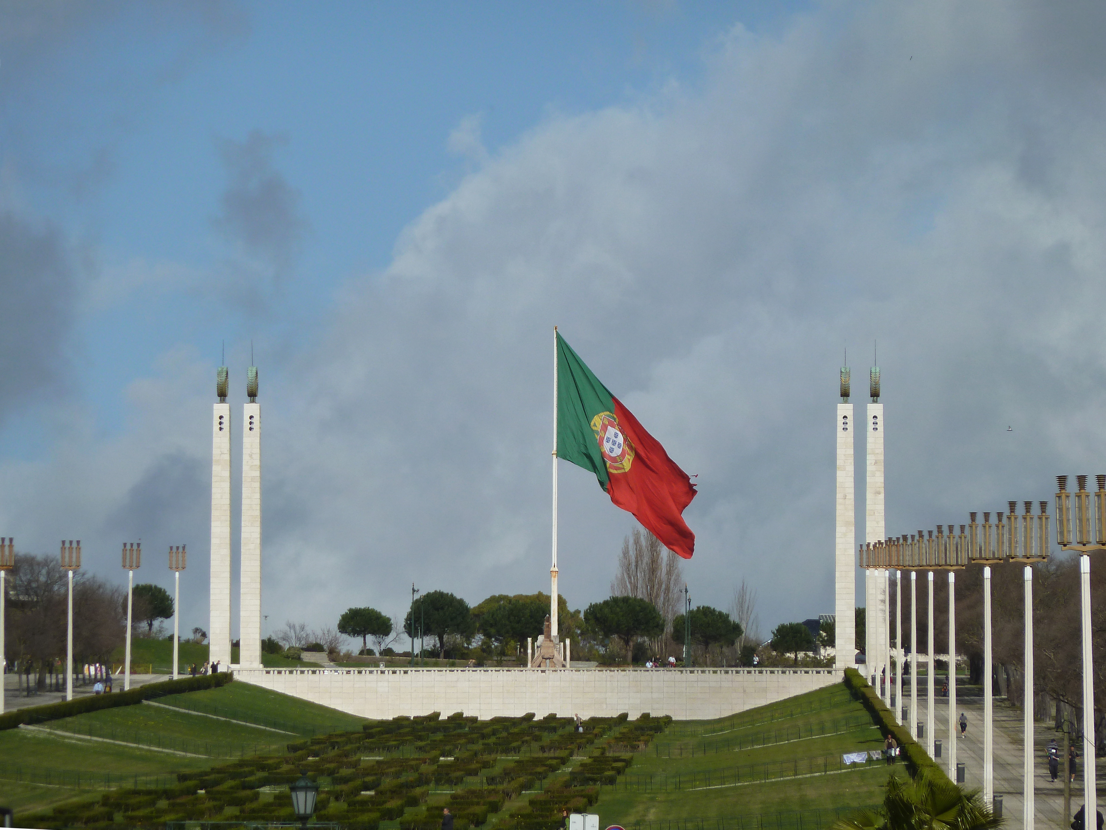 Parque Eduardo VII visto da Praça do Marquês de Pombal (view from Marquês de Pombal Square) in Lisbon